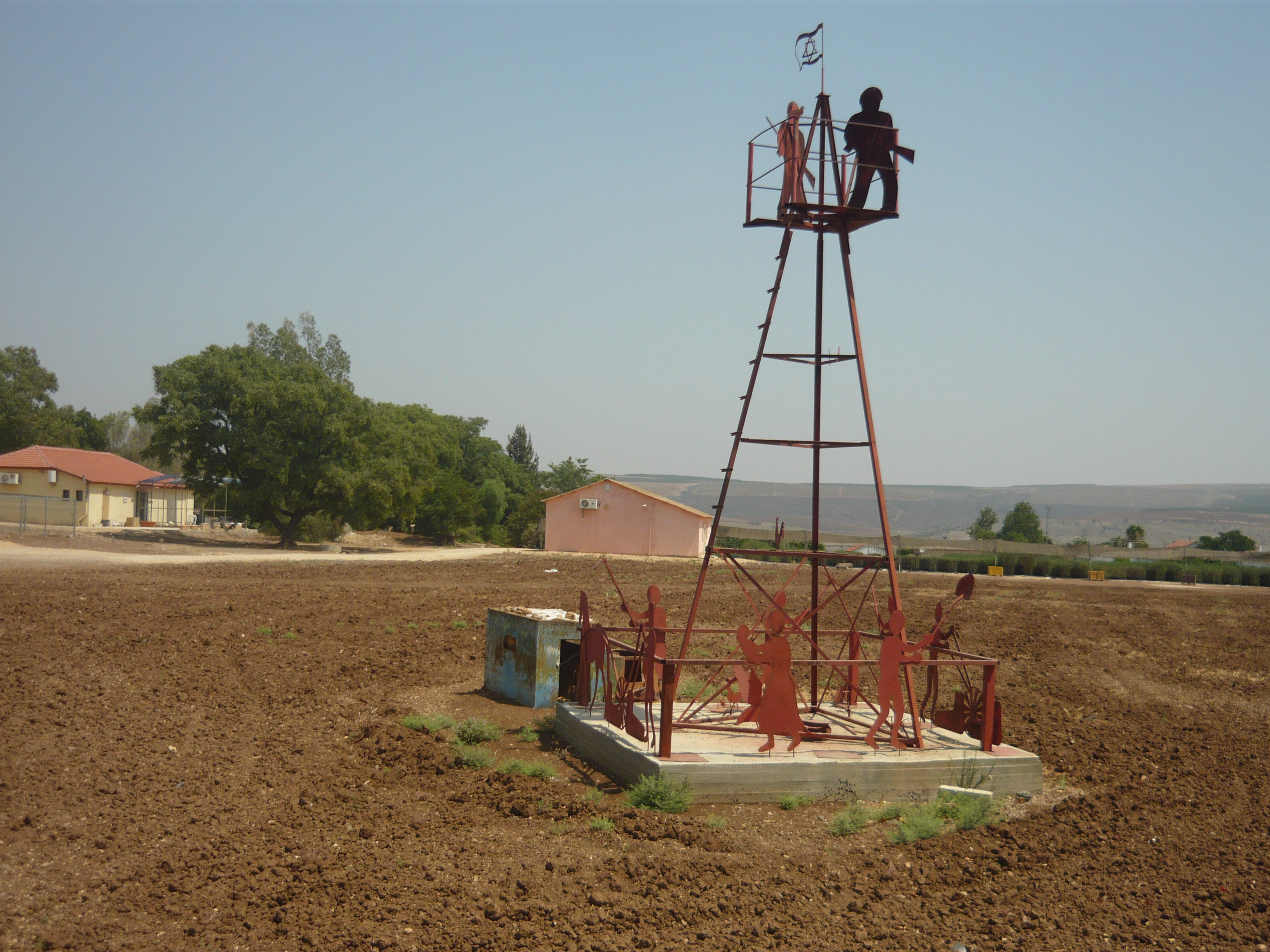 a statue in a public area in Shadmot Dvora Israel